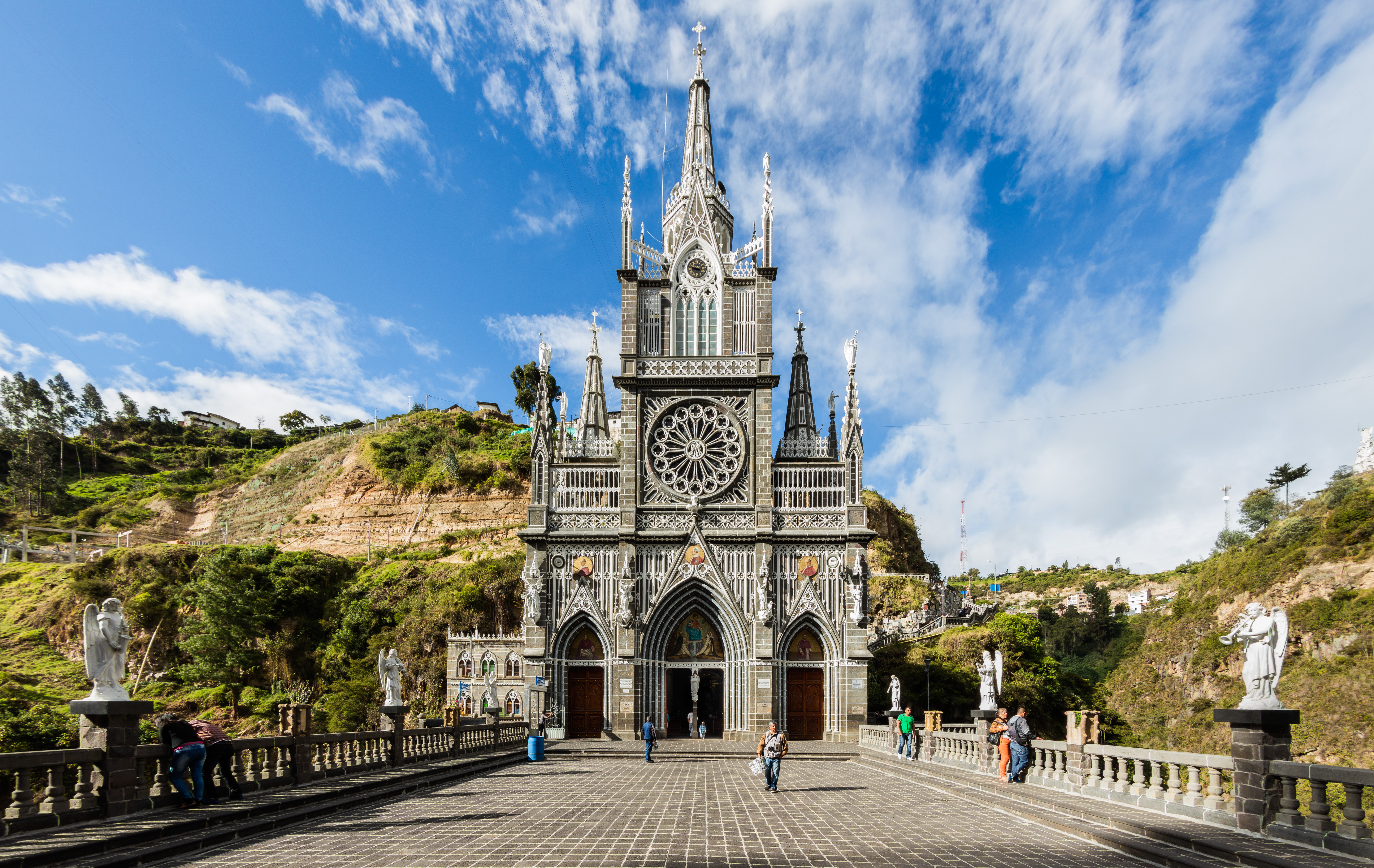 Sanctuary of Las Lajas, Ipiales, Colombia